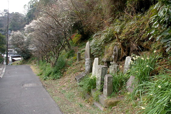 Dōsojin (travelers' guardian deity) at the remains of Kobukurozaka Pass in Kamakura, Kanagawa.